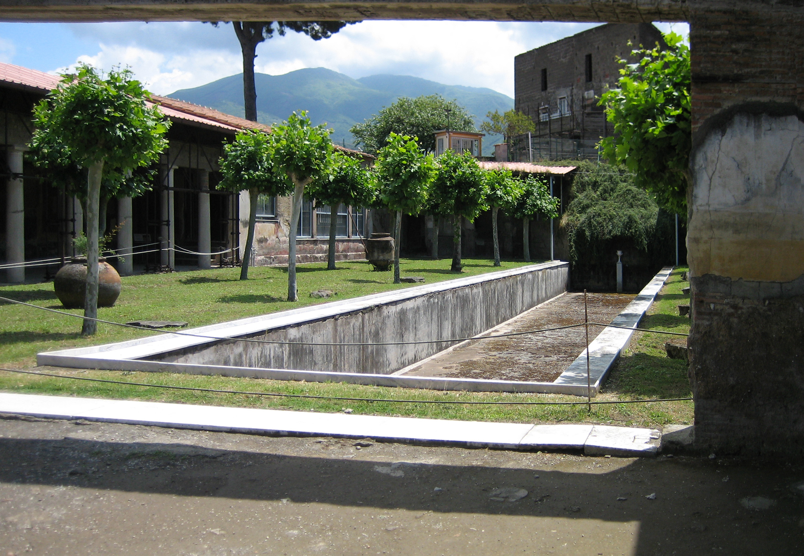 Peristyl of the Villa San Marco at the ancient Stabiae, the modern Castellammare di Stabia in Campania, Italy. The natatio (pool).